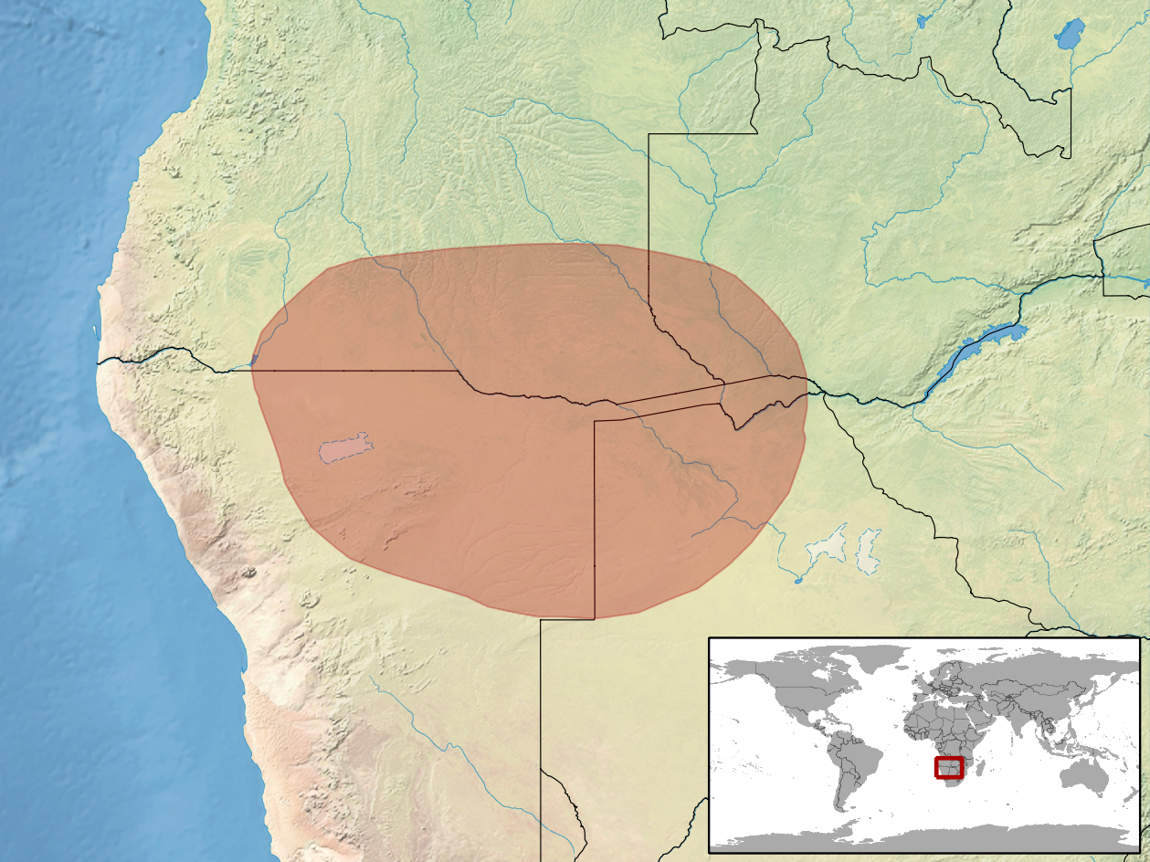 geographic distribution of Monopeltis anchietae (Native: Angola (Angola); Botswana; Namibia (Caprivi Strip))